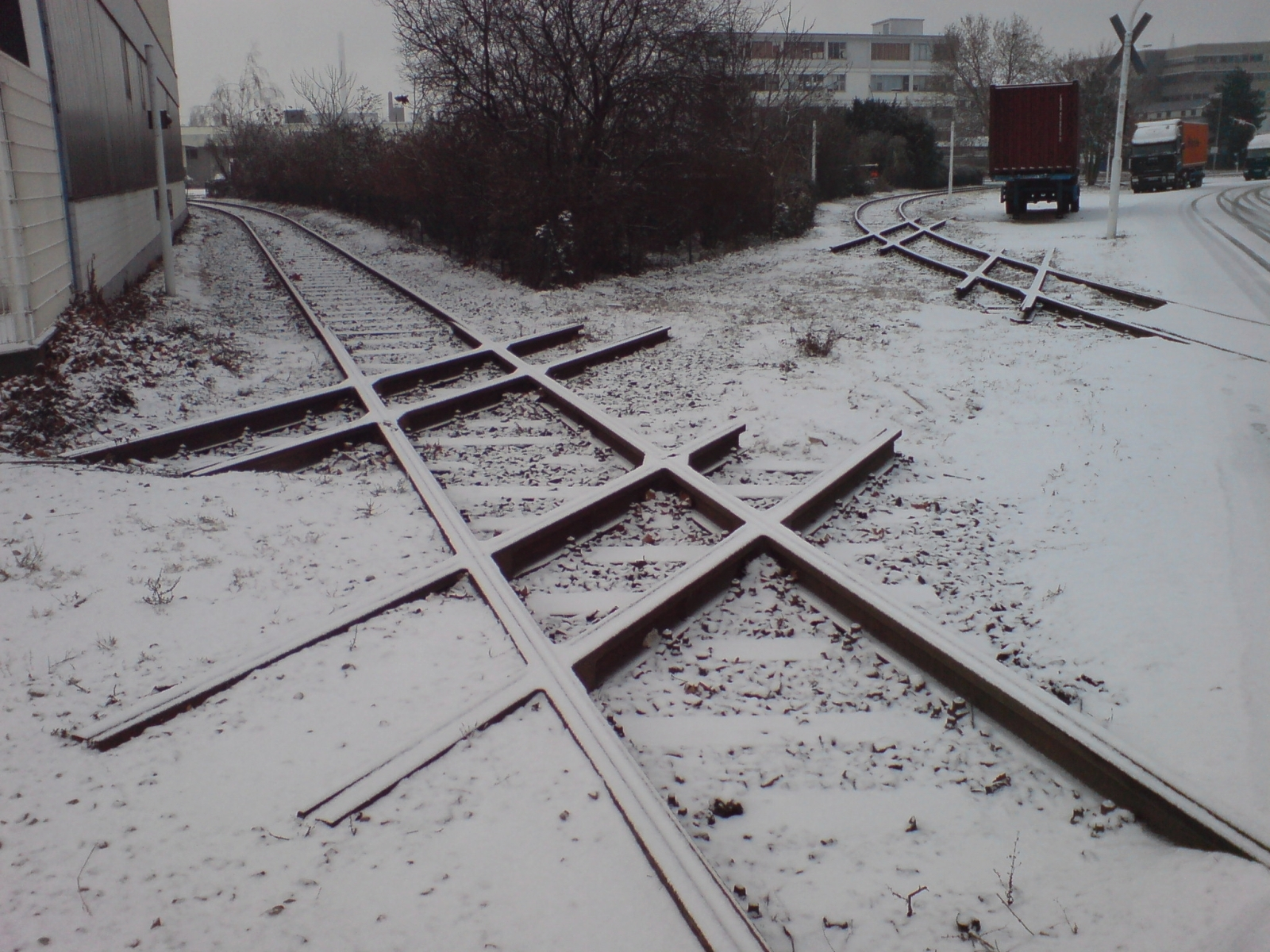 An old, partly disused section of industrial railway line (multiple diamond crossings) part of the "Hafenbahn" near the Port of Mainz, in Mainz Germany.